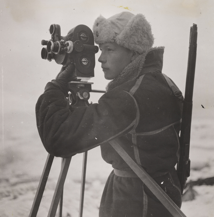 Creator: Anonymous Date: Unknown Format: Photograph; gelatin silver Collection: Daily Herald Archive at the National Media Museum Inventory no: 1983-5236/11823/1 Blog post: Snappy 5th birthday Flickr Commons Reverse of the photograph reads: The home of the weather reports. All through the war a meteorological station has been in operation on the small Norwegian island of Jan Mayen. It is situated far north in the Arctic Ocean, between Greenland and the north of Norway. This outpost guarded by a small garrison of Norwegian troops, has, through its meteorological observations, been one of the most important stations for weather reports for convoys crossing the north Atlantic to America and Russia, and has played a vital part in the fight for the domination of the seas. Norwegian official photo. Picture taken when two representatives from the Information Office visited Jan Mayen to take films and photographs of the life on the island. Picture shows photographer Mattis Mathiesen at work on the beach.